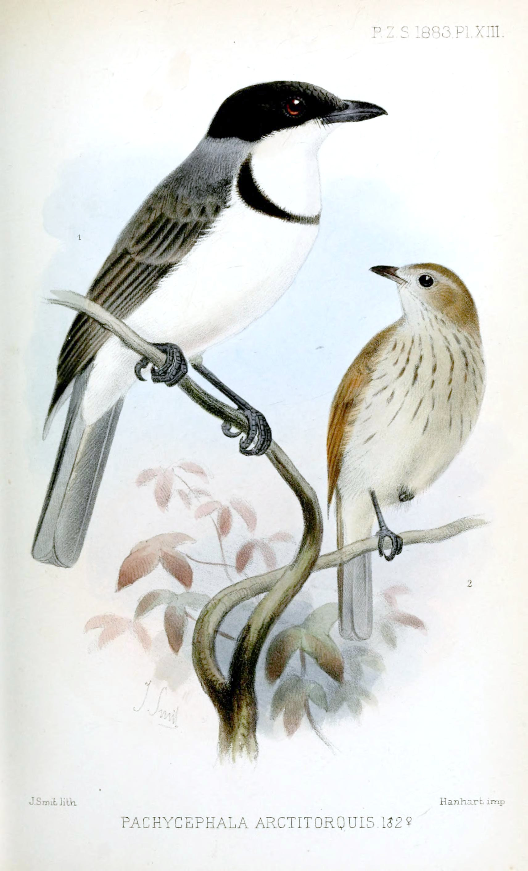 Wallacean Whistler, male (left) and female (right)